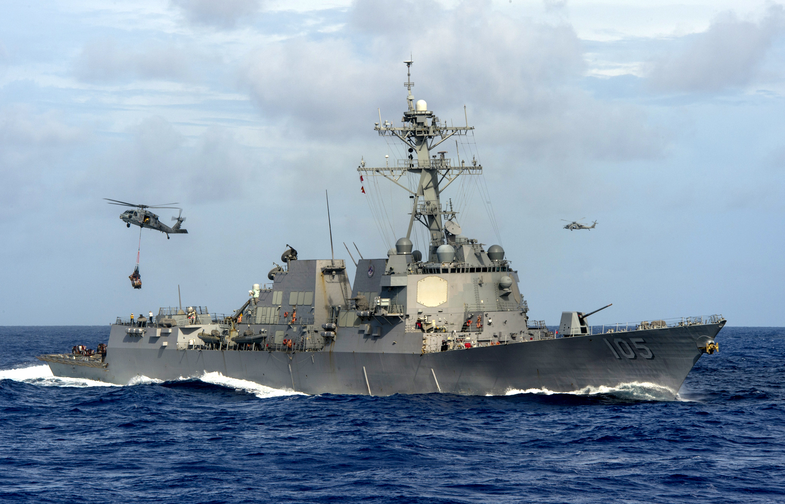 PHILIPPINE SEA (Sept. 24, 2014) The Arleigh Burke-class guided-missile destroyer USS Dewey (DDG 105) conducts a vertical replenishment. Dewey is part of the Carl Vinson Carrier Strike Group on deployment in the U.S. 7th Fleet area of responsibility supporting security and stability in the Indo-Asia-Pacific region. (U.S. Navy photo by Mass Communication Specialist 2nd Class John Philip Wagner, Jr./Released) 140924-N-TP834-097 Join the conversation